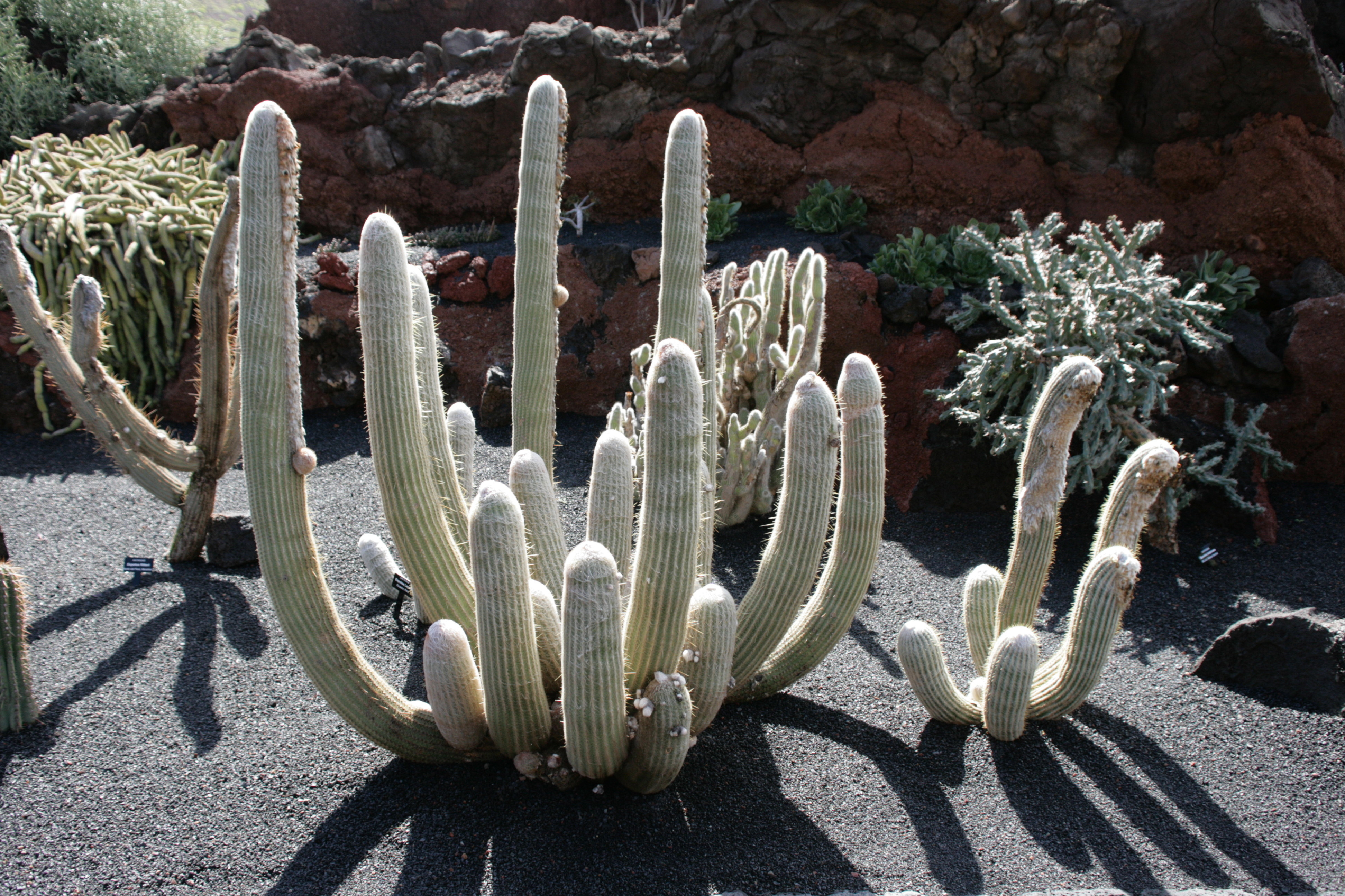 Espostoa melanostele grown in the Botanical Garden “Jardin de Cactus” in Guatiza, Teguise, Lanzarote, Canary Islands